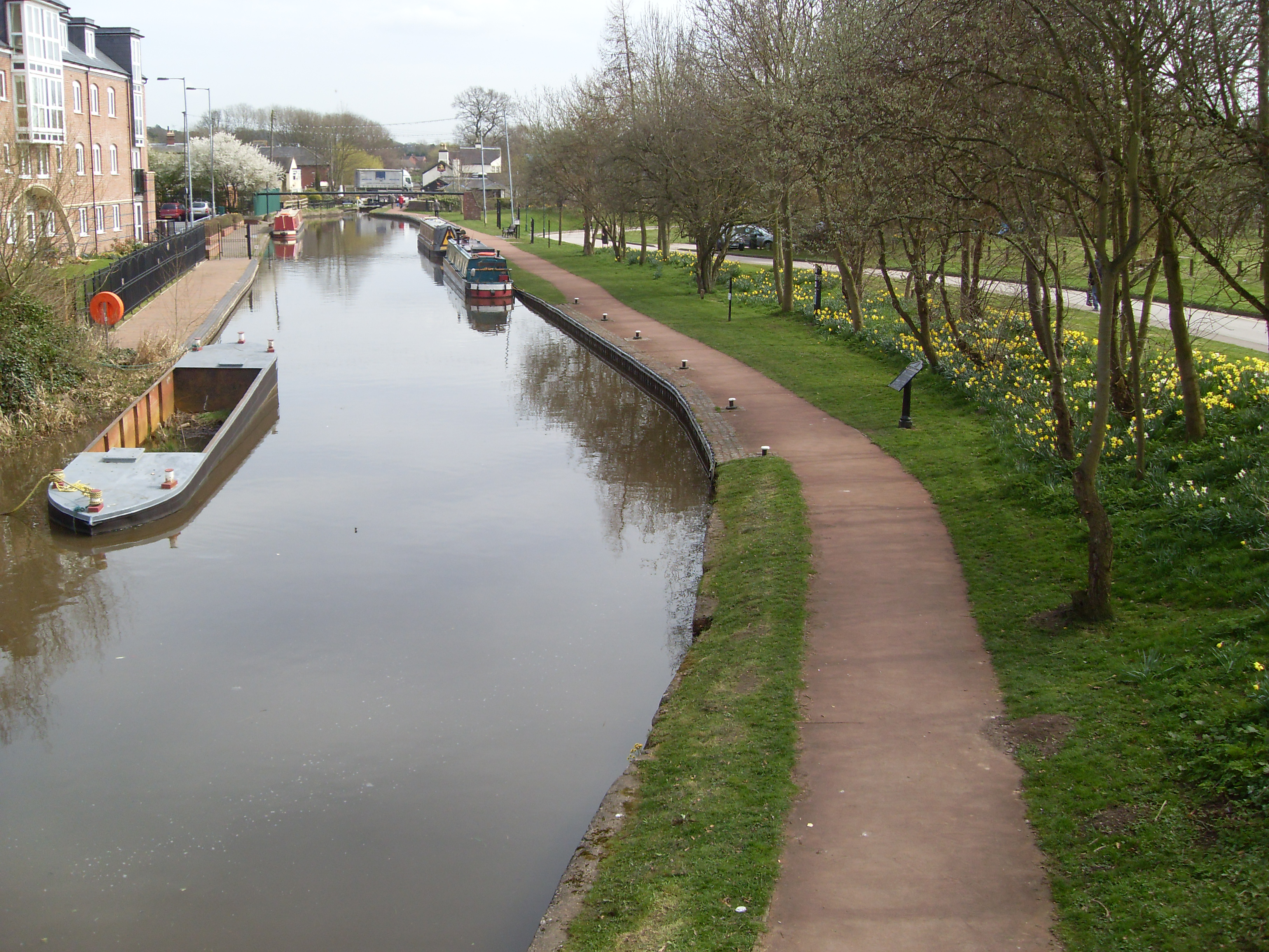 The Trent and Mersey canal in Stone in the Staffordshire in England.